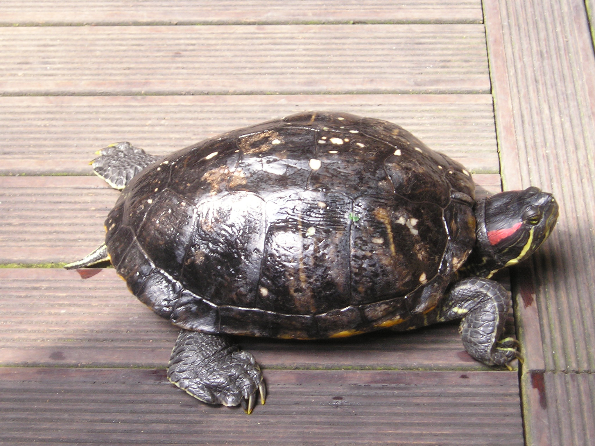 Picture of a Red-eared slider. Took by Galano user in june 2006